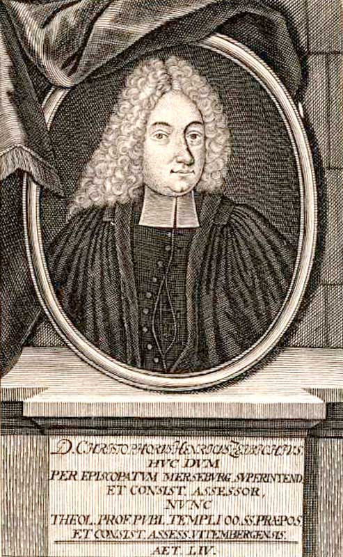 Christoph Heinrich Zeibich (1677-1748) Protestant theologians from Germany